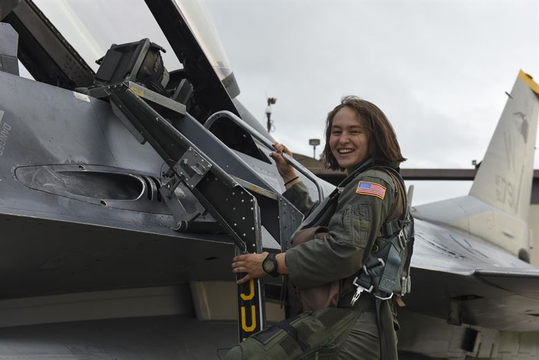 U.S. Air Force Academy Cadet 2nd Class Madison Tung climbs out of an F-16 Fighting Falcon at Kunsan Air Base, Republic of Korea, July 11, 2017.